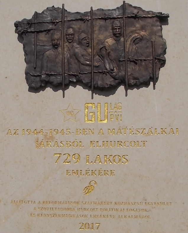 PPlaque-relief on the facade of the Government Office of Szabolcs-Szatmár-Bereg County, Mátészalka District Office, Regulatory Affairs Department and Social Services Department. Former doctor's office. - 2 Kölcsey Square, Mátészalka, Szabolcs-Szatmár-Bereg County, Hungary.